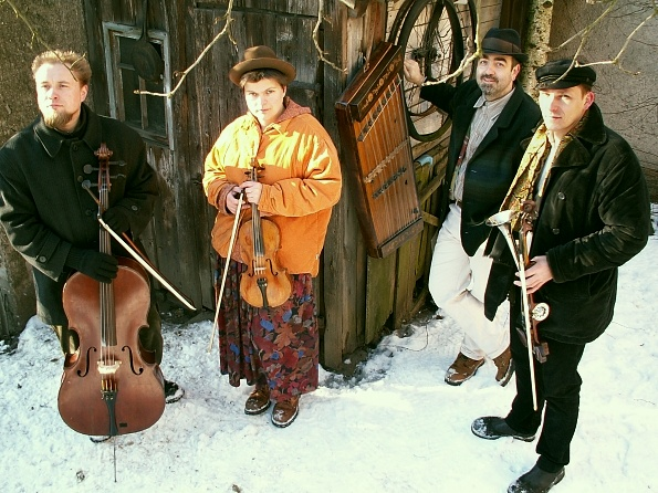 Band